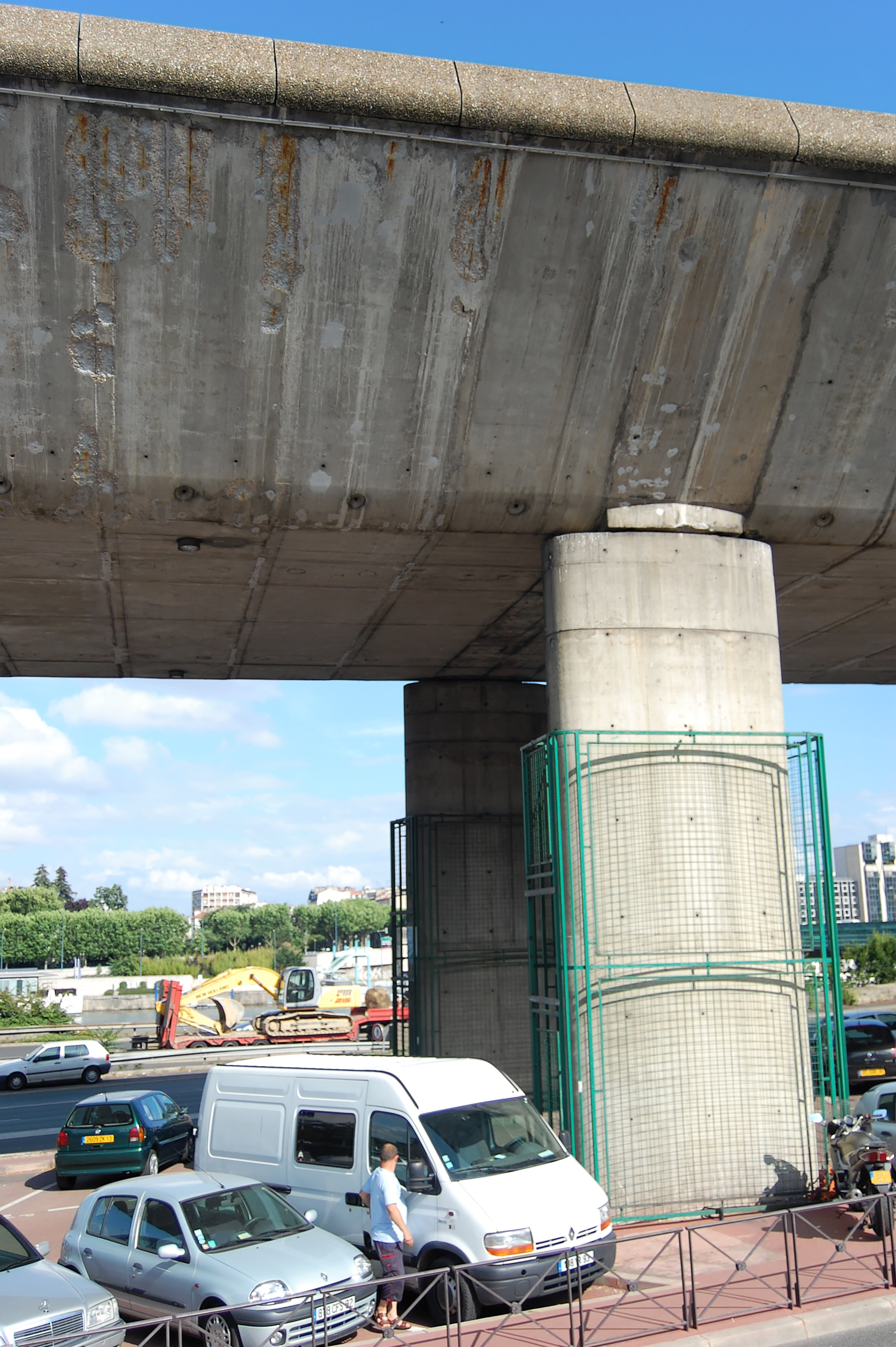 Viaduc de Saint-Cloud, on which is the A13, French Motorway